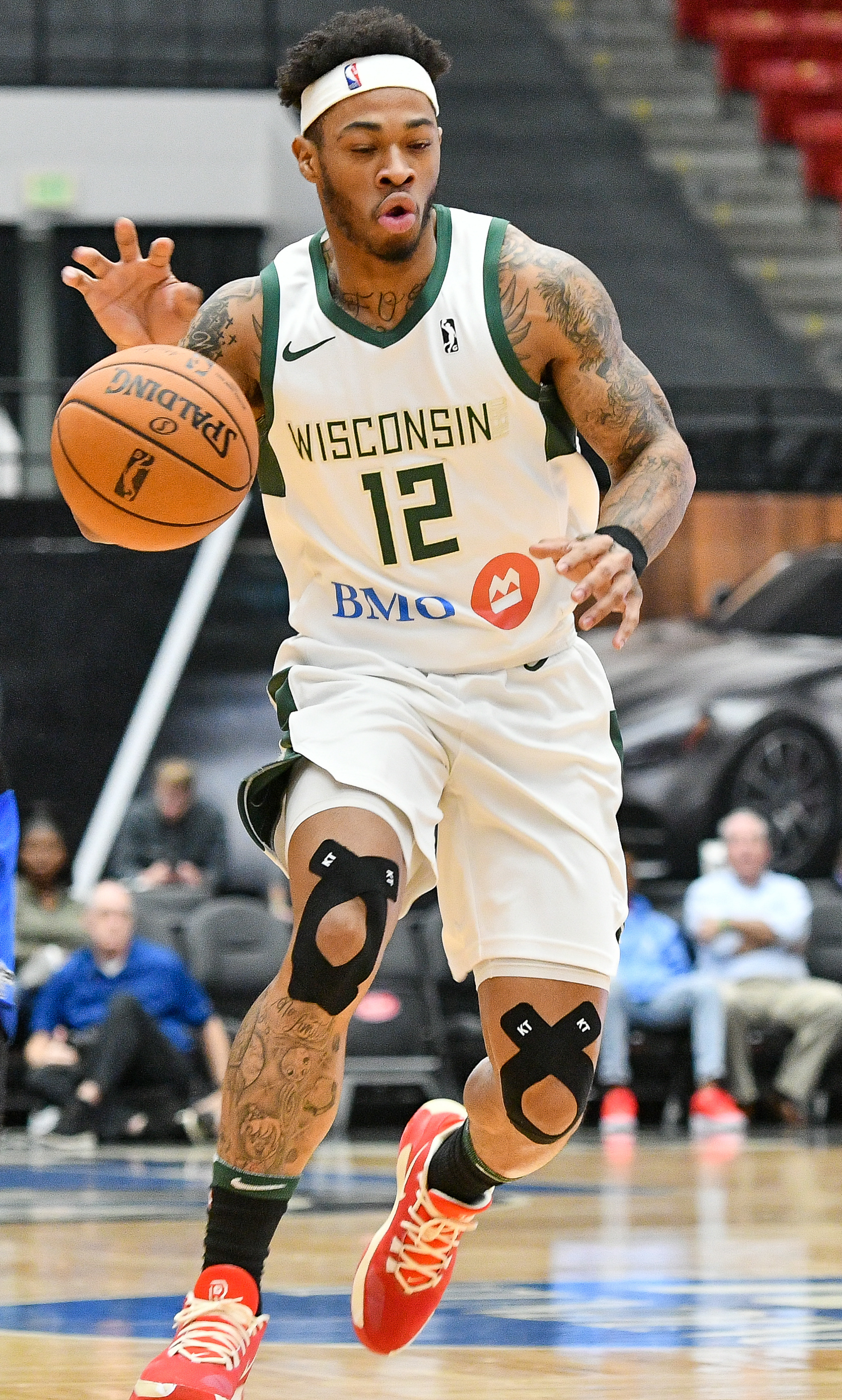 BJ Johnson, Rayjon Tucker. Lakeland Magic vs Wisconsin Herd. RP Funding Center. Lakeland, Fla. Nov. 20, 2019. (Photo by Tom Hagerty.)